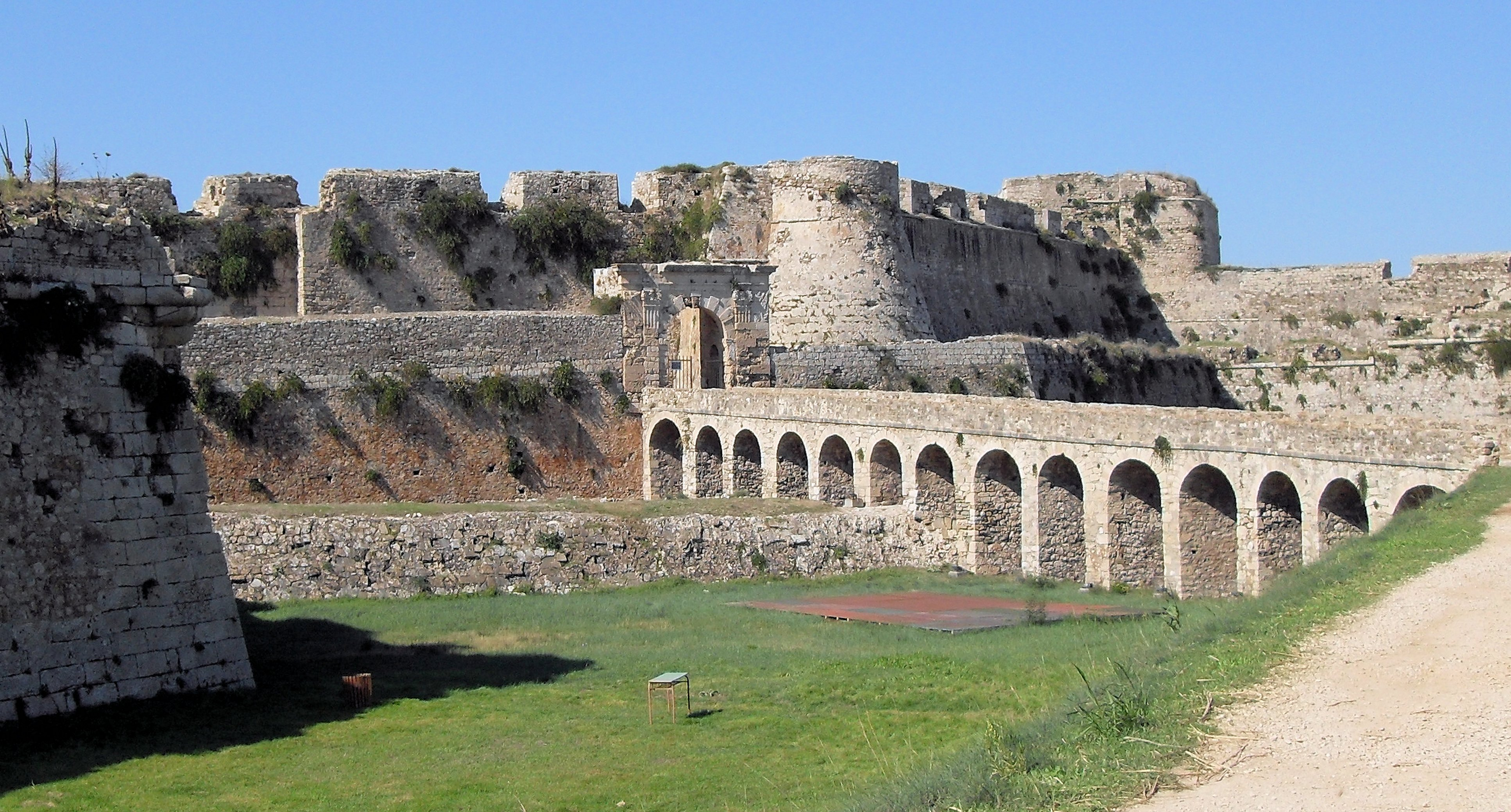 Methoni Castle (Bourtzi)